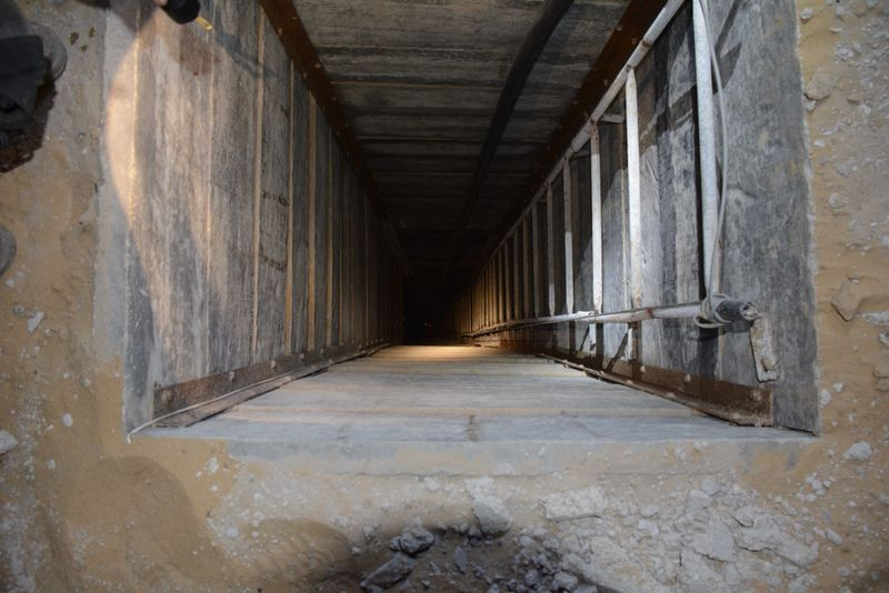 The IDF continues to uncover hidden terror tunnels in the Gaza Strip, used by Hamas to carry out attacks on Israelis.